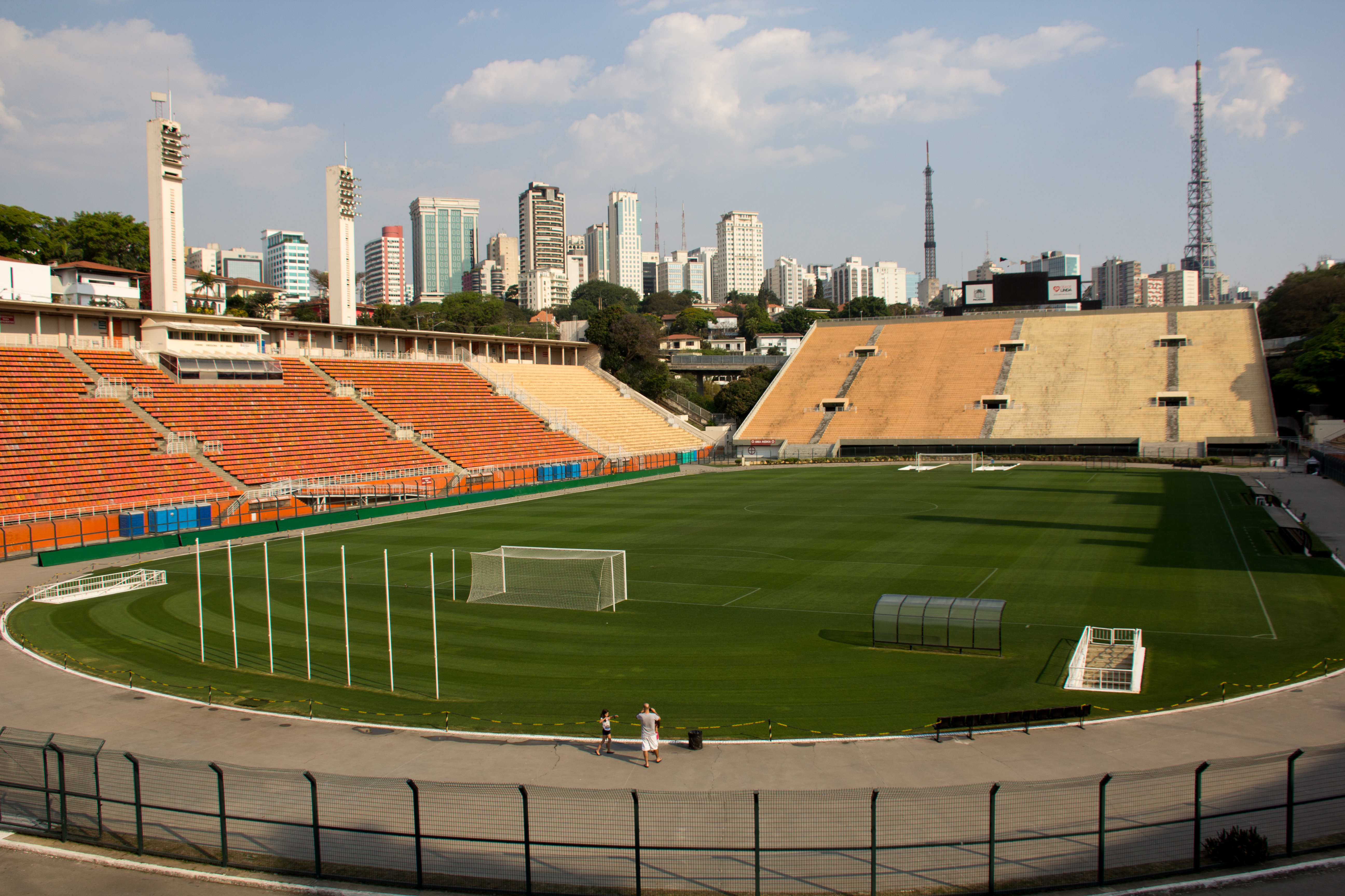 Estádio do Pacaembu, São Paulo, Brazil